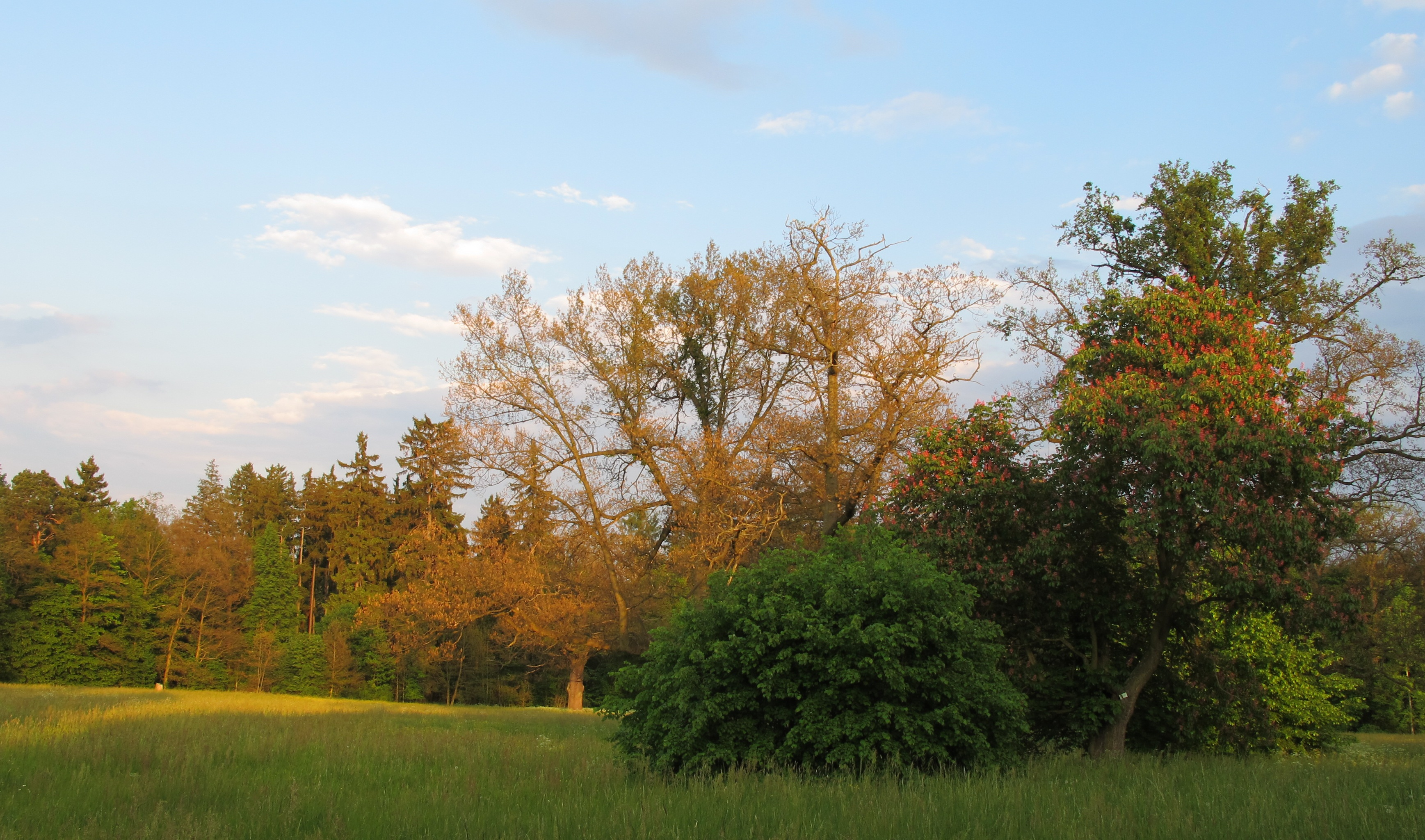 Dobříšský park is a park near Dobříš chateau, Příbram District